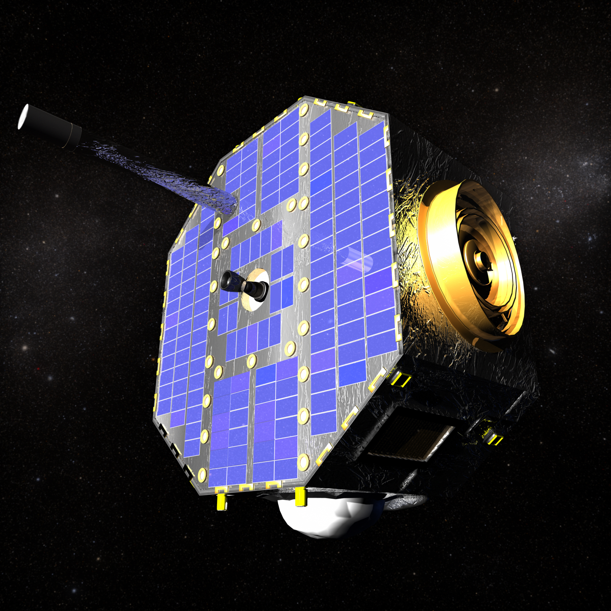 Artist's concept of the Interstellar Boundary Explorer (IBEX) spacecraft